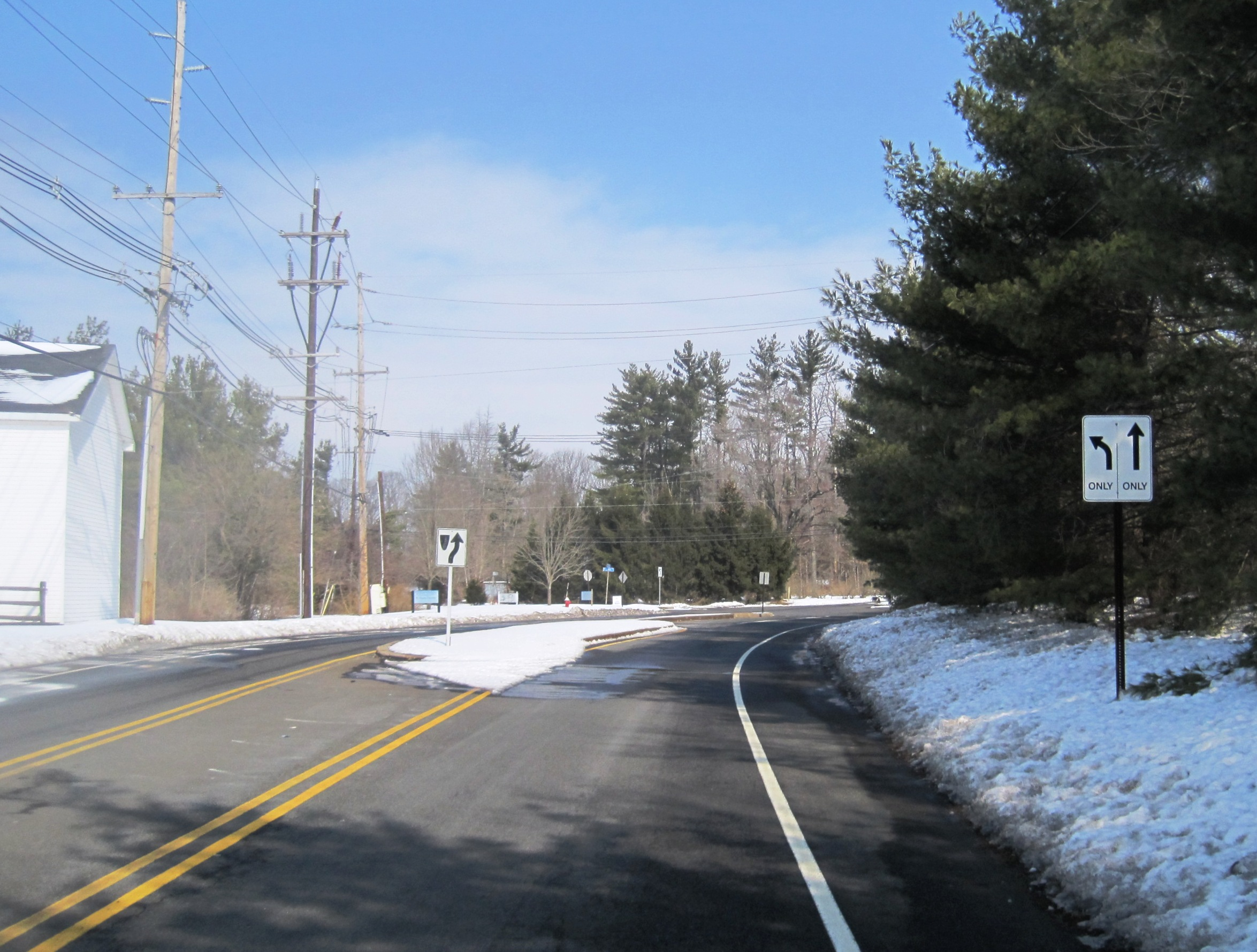 Photo of the intersection of County Route 624 (Pennington-Rocky Hill Road) and Titus Mill Road in an unincorporated section of Hopewell Township, Mercer County, New Jersey called Centerville.